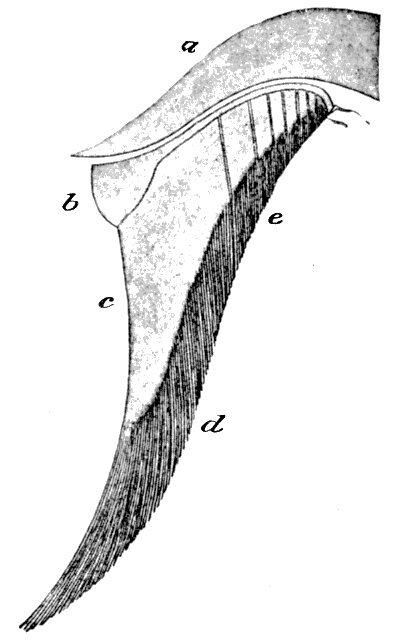 Fig. 189.—Section of upper jaw, with baleen plates, of Balaenoptera. a, Bone of jaw; b, gum; c, straight edge of baleen plate; d, e, frayed out surface of baleen plates. (After Owen.)